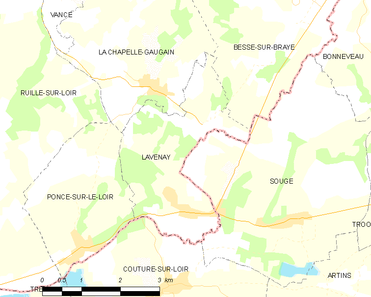 Map of French municipality